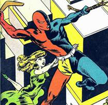 Cover detail, Daredevil Comics #5 (Nov. 1941), art by Charles Biro. (Lev Gleason Pubs., defunct co.)